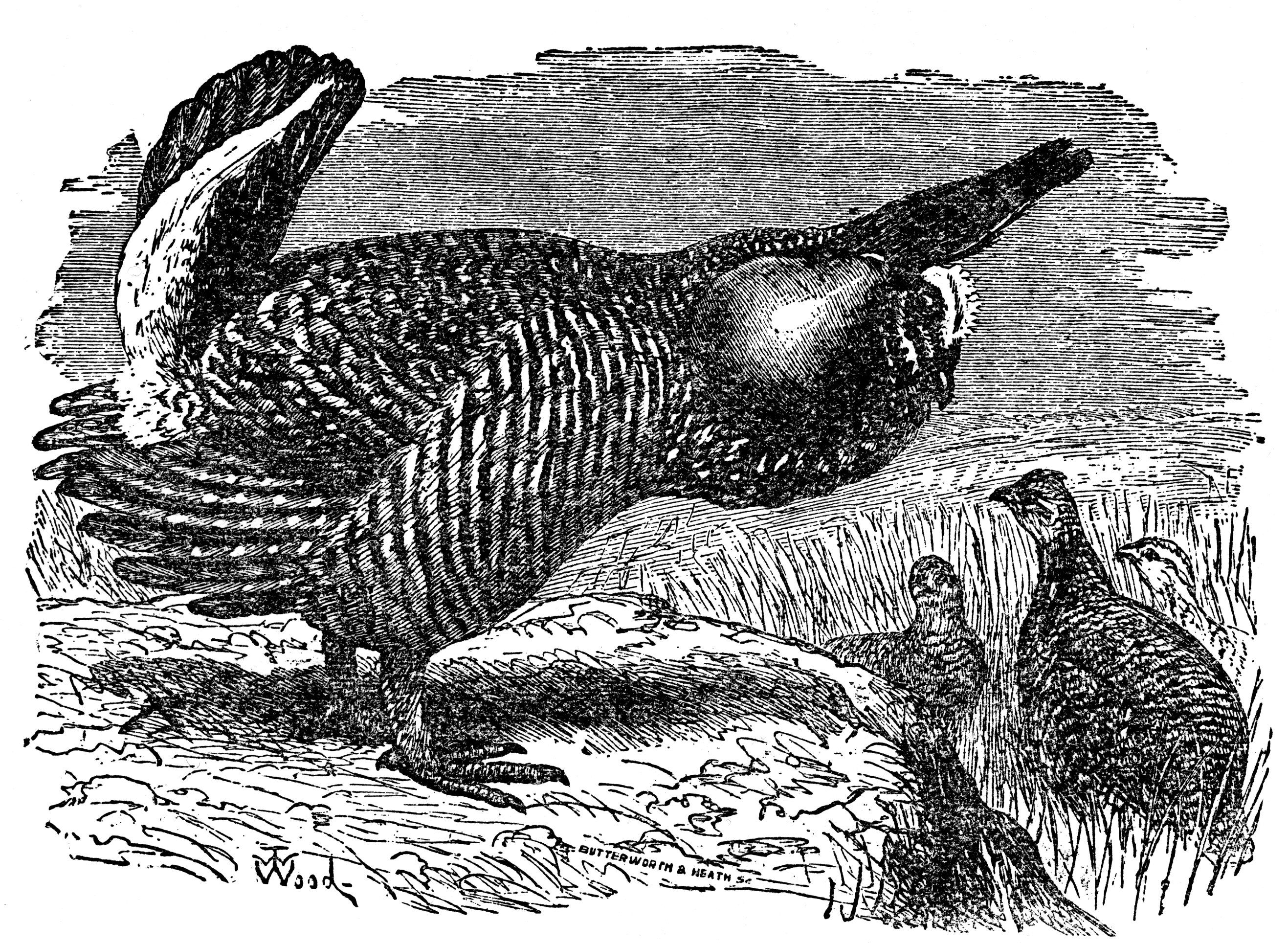 Scan of Figure 39, from Darwin's Descent of Man, second edition. Shows Greater Prairie Chicken Tympanuchus cupido (labelled Tetrao cupido in image) male displaying to females with inflated vocal sacs, raised crest and tail, and spread wings.